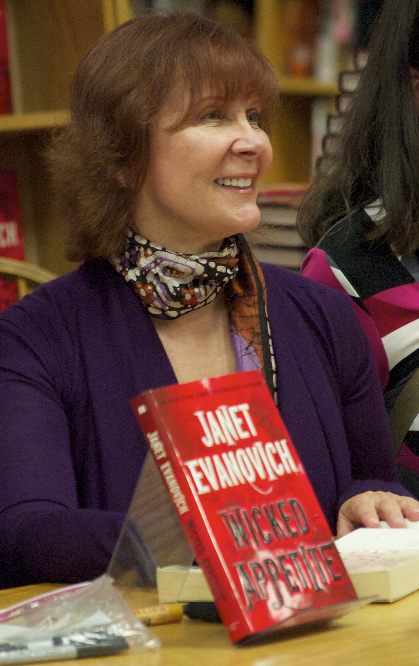 Janet Evanovich at a book signing at Borders Books and Music in Braintree, Massachusetts.